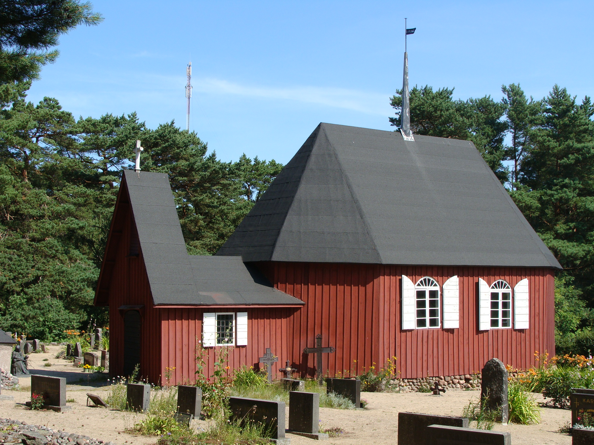 Church in Nötö island in the Archipelago Sea in Finland.